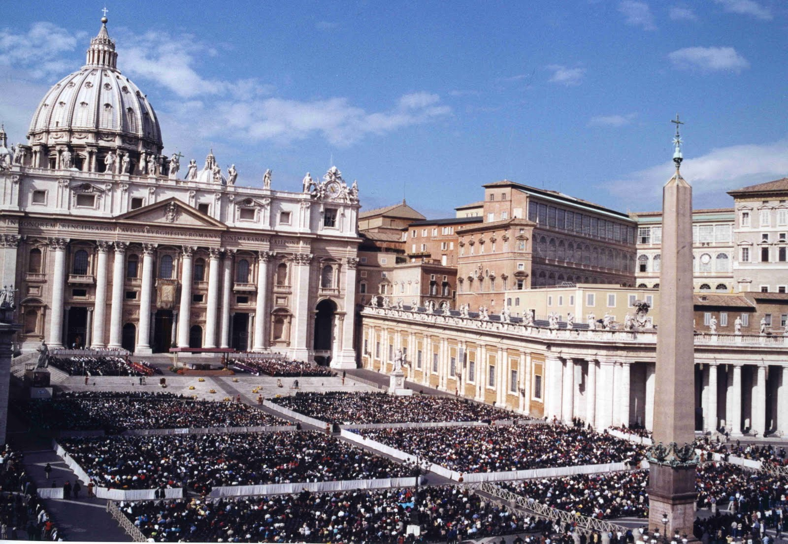 Plaza San Pietro en Roma en el día de la Beatificación de Juan María de la Cruz.